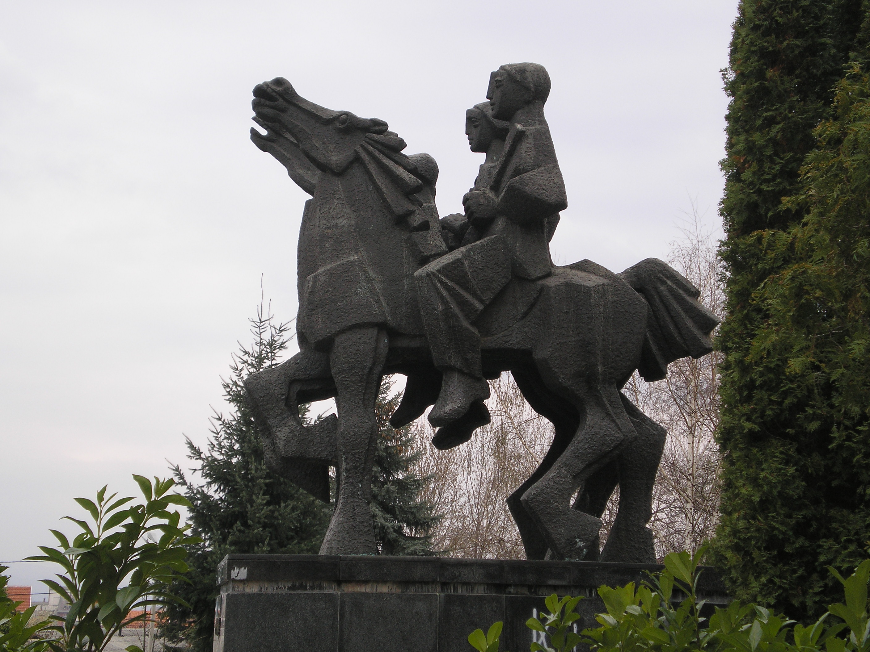 one of monuments in Vranje